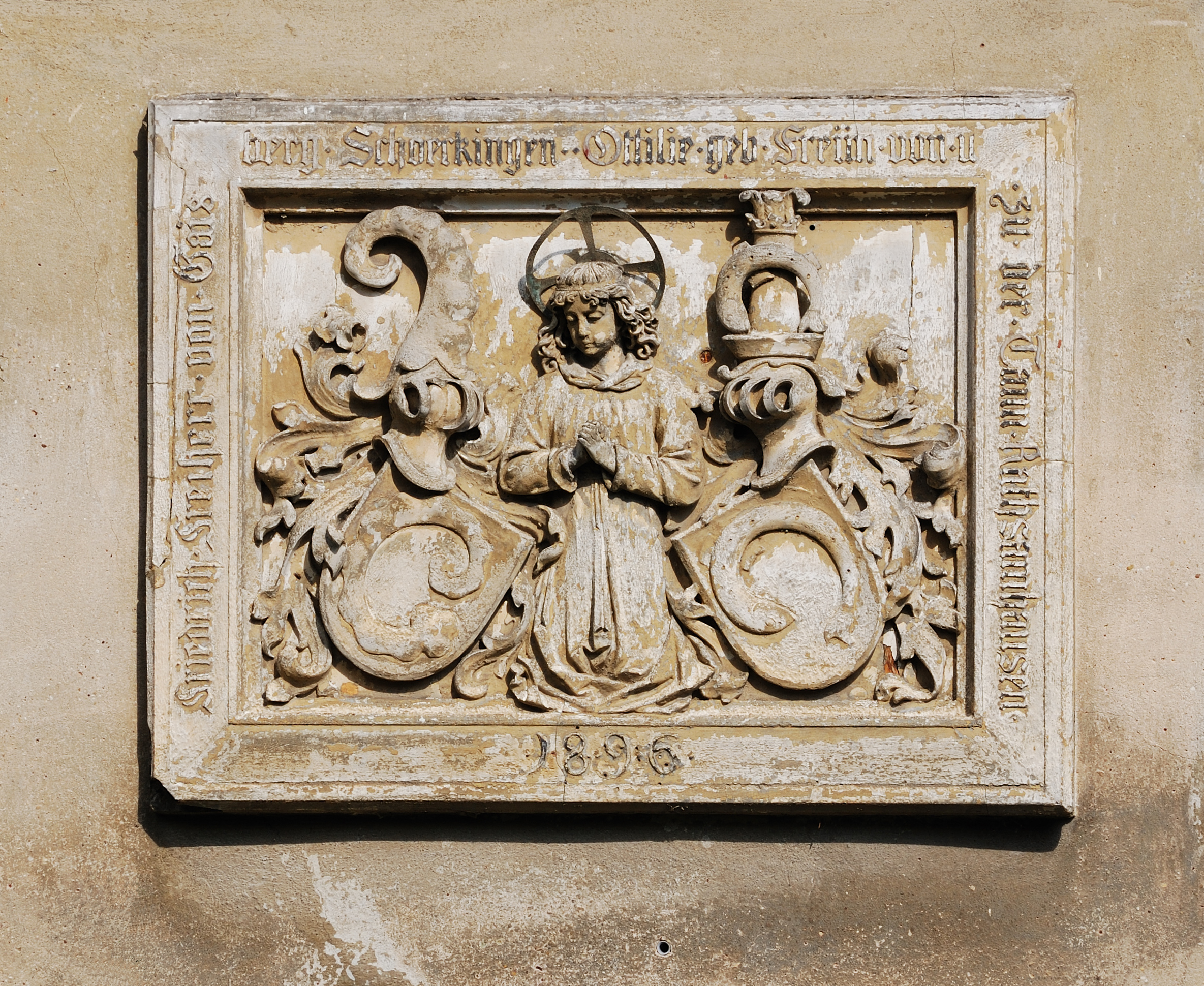 Stone plate with the coat of arms of Friedrich Freiherr von Gaisberg Schöckingen and his wife, attached on the Schöckingen castle.